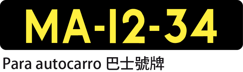 Macau number plate, bus.